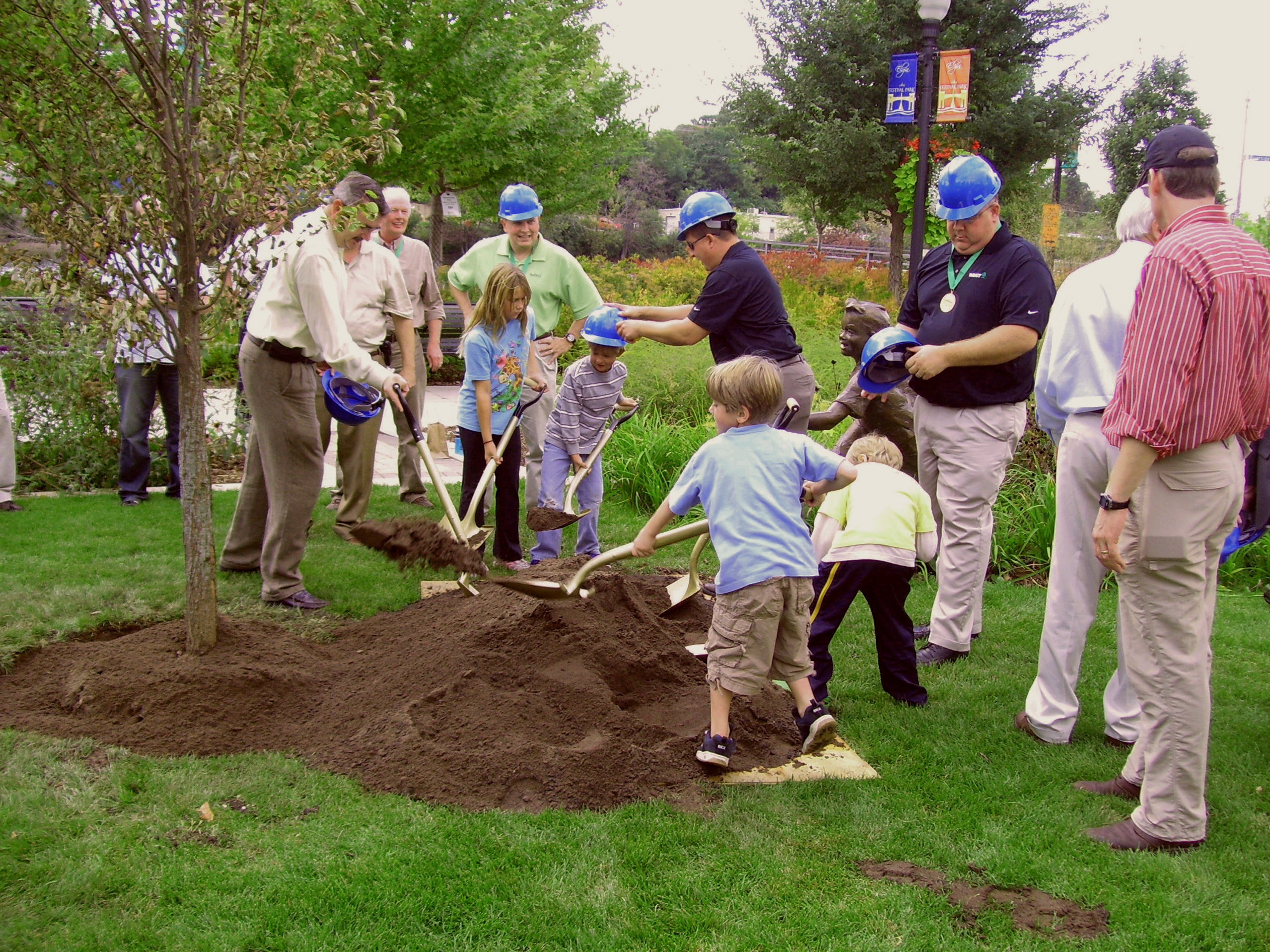 A city-wide block party and historic tree walk in Elgin featured an opportunity for attendees to learn about the city's Fit Forest initiative, a Forest Service Recovery Act-funded effort to conduct forest health management activities on public lands within the city.